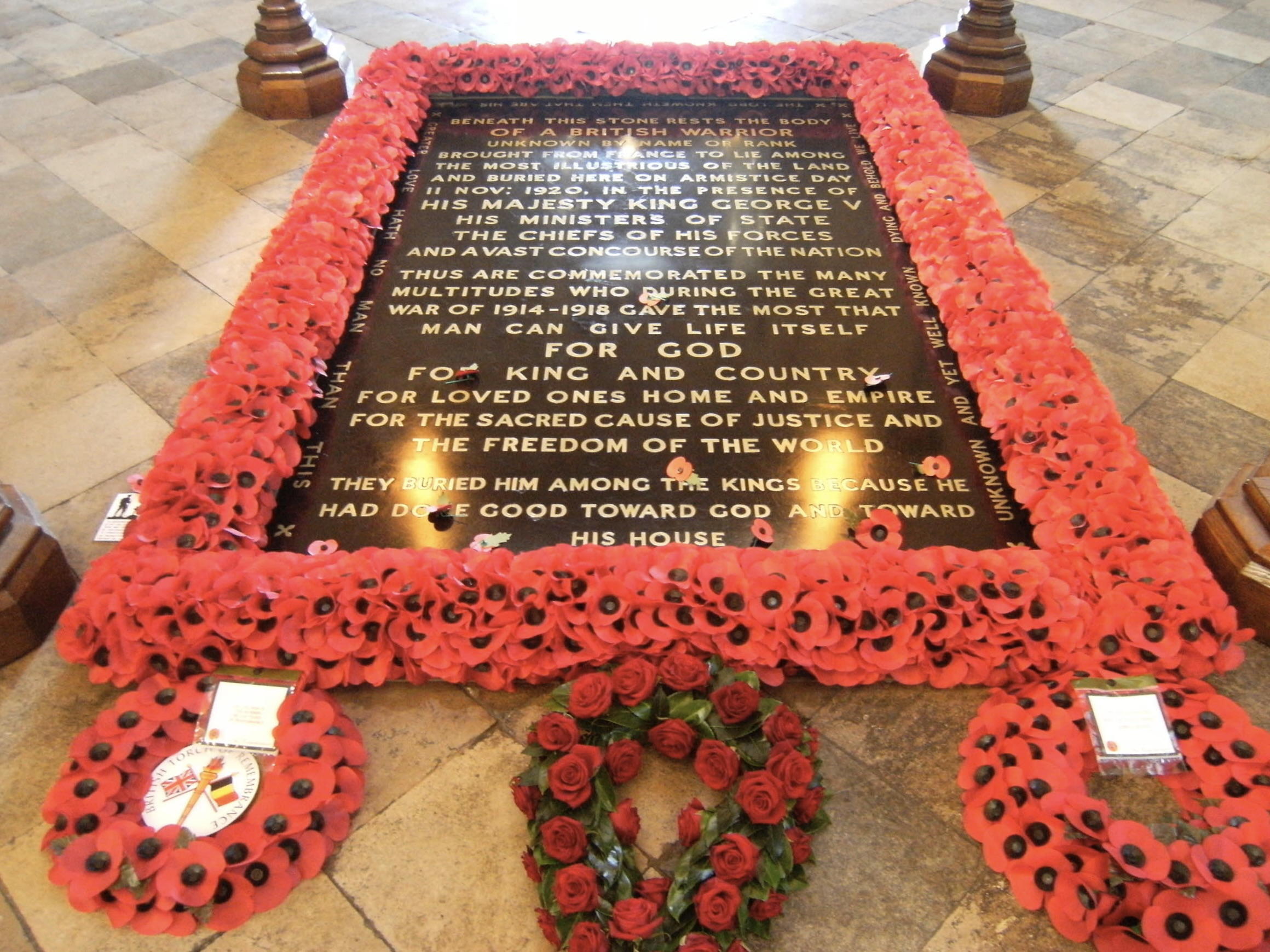 We paid our respects on the 90th anniversary of Unknown Warrior being laid to rest in Westminster Abbey. The grave featuring this inscription, composed by Herbert Edward Ryle, Dean of Westminster, engraved with brass from melted down wartime ammunition: BENEATH THIS STONE RESTS THE BODY OF A BRITISH WARRIOR UNKNOWN BY NAME OR RANK BROUGHT FROM FRANCE TO LIE AMONG THE MOST ILLUSTRIOUS OF THE LAND AND BURIED HERE ON ARMISTICE DAY 11 NOV: 1920, IN THE PRESENCE OF HIS MAJESTY KING GEORGE V HIS MINISTERS OF STATE THE CHIEFS OF HIS FORCES AND A VAST CONCOURSE OF THE NATION THUS ARE COMMEMORATED THE MANY MULTITUDES WHO DURING THE GREAT WAR OF 1914 - 1918 GAVE THE MOST THAT MAN CAN GIVE LIFE ITSELF FOR GOD FOR KING AND COUNTRY FOR LOVED ONES HOME AND EMPIRE FOR THE SACRED CAUSE OF JUSTICE AND THE FREEDOM OF THE WORLD THEY BURIED HIM AMONG THE KINGS BECAUSE HE HAD DONE GOOD TOWARD GOD AND TOWARD HIS HOUSE Around the main inscription are four texts: THE LORD KNOWETH THEM THAT ARE HIS (top) UNKNOWN AND YET WELL KNOWN, DYING AND BEHOLD WE LIVE (side) IN CHRIST SHALL ALL BE MADE ALIVE (base) GREATER LOVE HATH NO MAN THAN THIS (side) This tombstone is the only tombstone in the Abbey on which it is forbidden to walk.